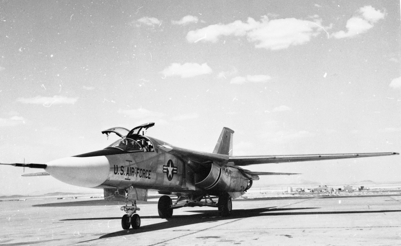 General Dynamics F-111A pre production